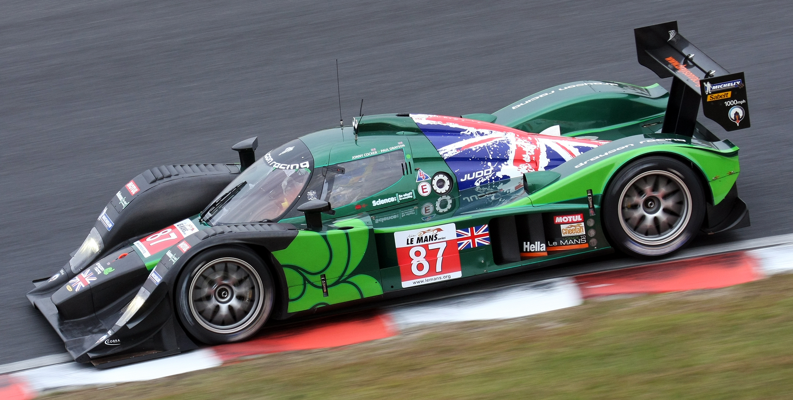 Asian Le Mans Series 2009 1000km of Okayama: Lola B09/60 (Drayson Racing)